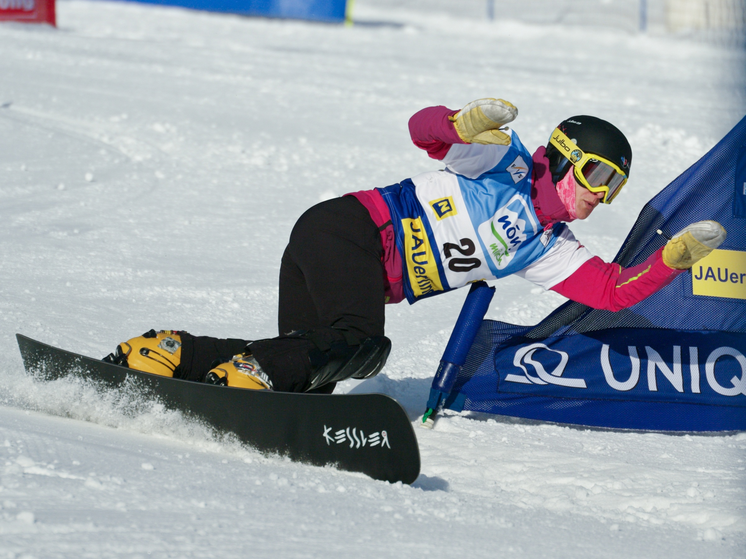 French snowboarder Nathalie Desmares in the qualification round of the World Cup Parallel Slalom at the Jauerling in Austria on 13 January 2012.